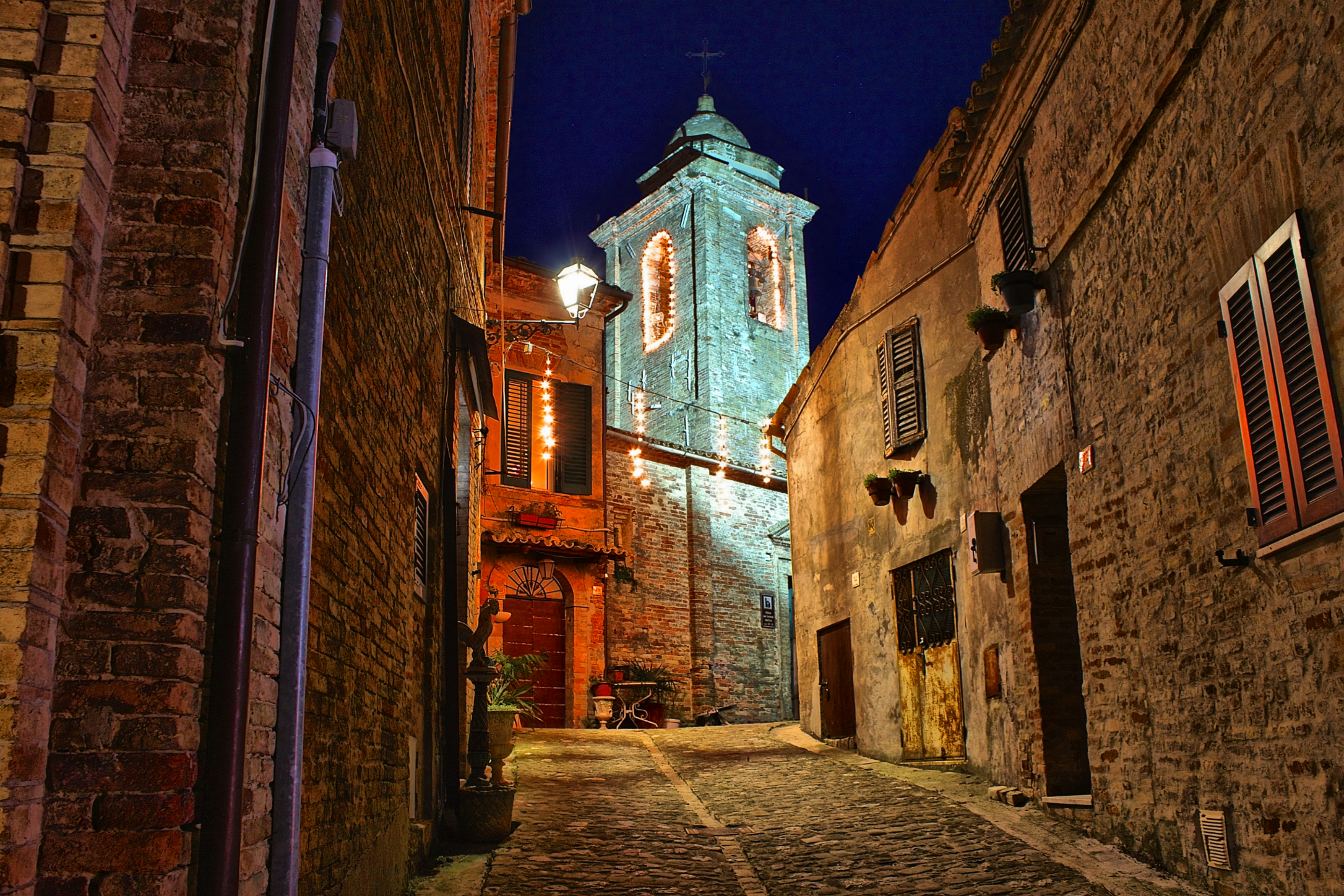 Carassai: the Citadel by night